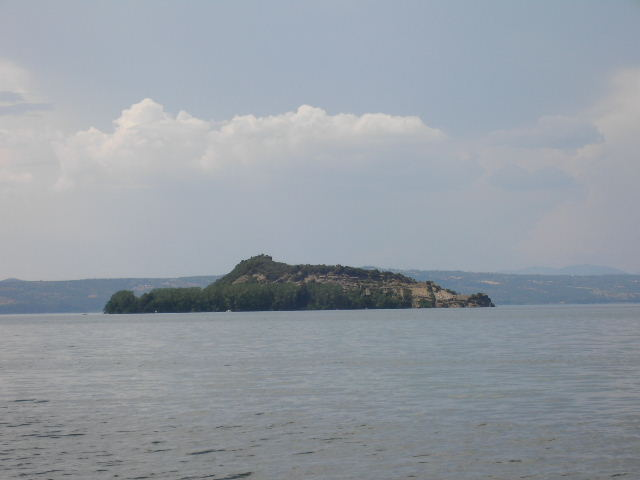 Isla Martana on Lake Bolsena, Italy, taken from beach underneath Montefiascone, August 2006